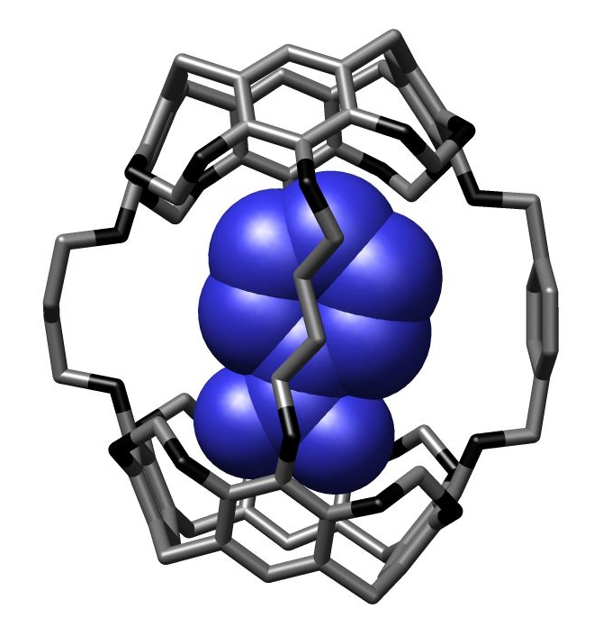 A nitrobenzene bound within a hemicarcerand. This picture was generated using crystal structure data reported in Juyoung Yoon; Carolyn B. Knobler; Emily F. Maverick; Donald J. Cram (1997). "Dissymmetric new hemicarcerands containing four bridges of different lengths". Chemical Communications (14): 1303–1304. Cambridge, UK: Royal Society of Chemistry.